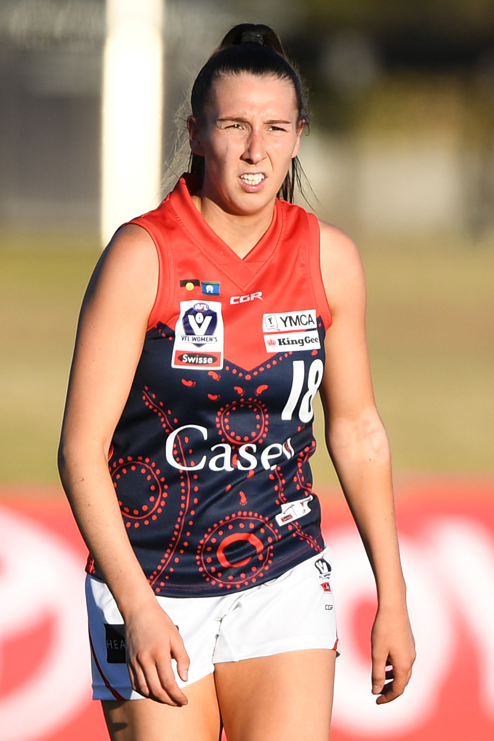 Casey Sherriff of Casey during the 2019 VFLW round 11 match between NT Thunder and Casey at Traeger Park on Saturday, 20 July 2019 in Alice Springs, Northern Territory.